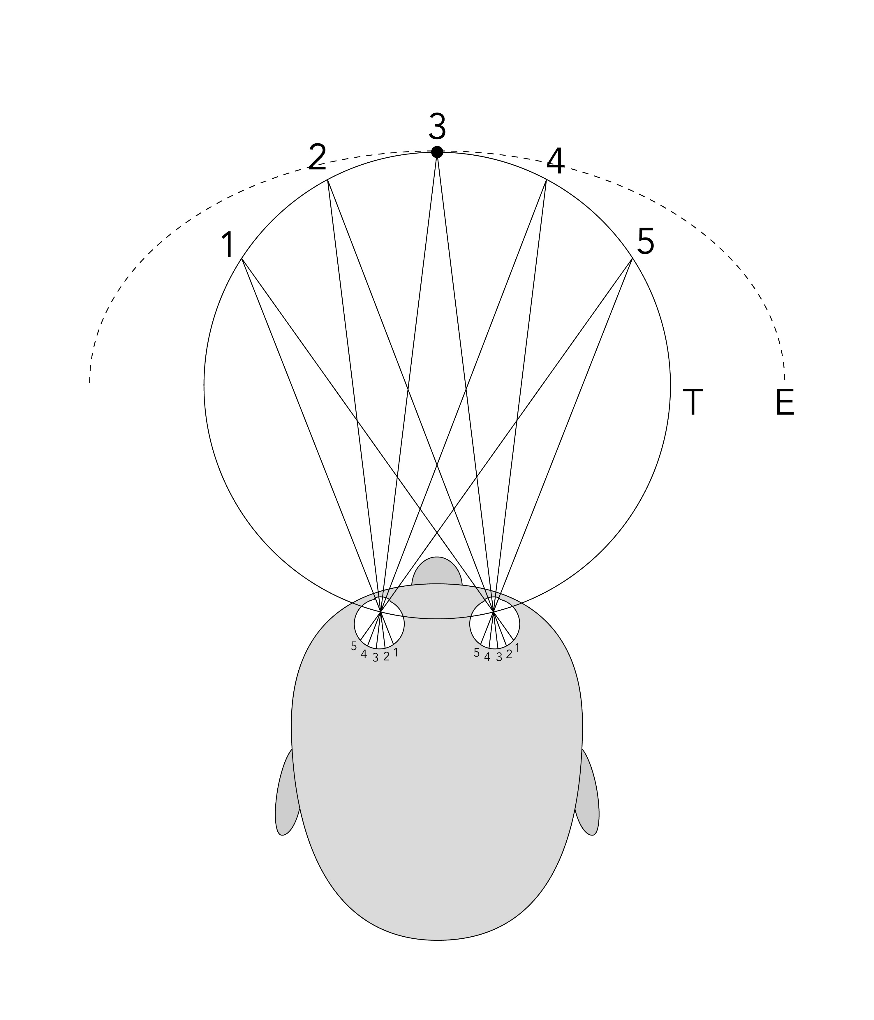 Horopter, schematic representation. With the eyes converged in point 3, the theoretical/geometrical horopter is the circle T, while the empirical horopter is the arc E.